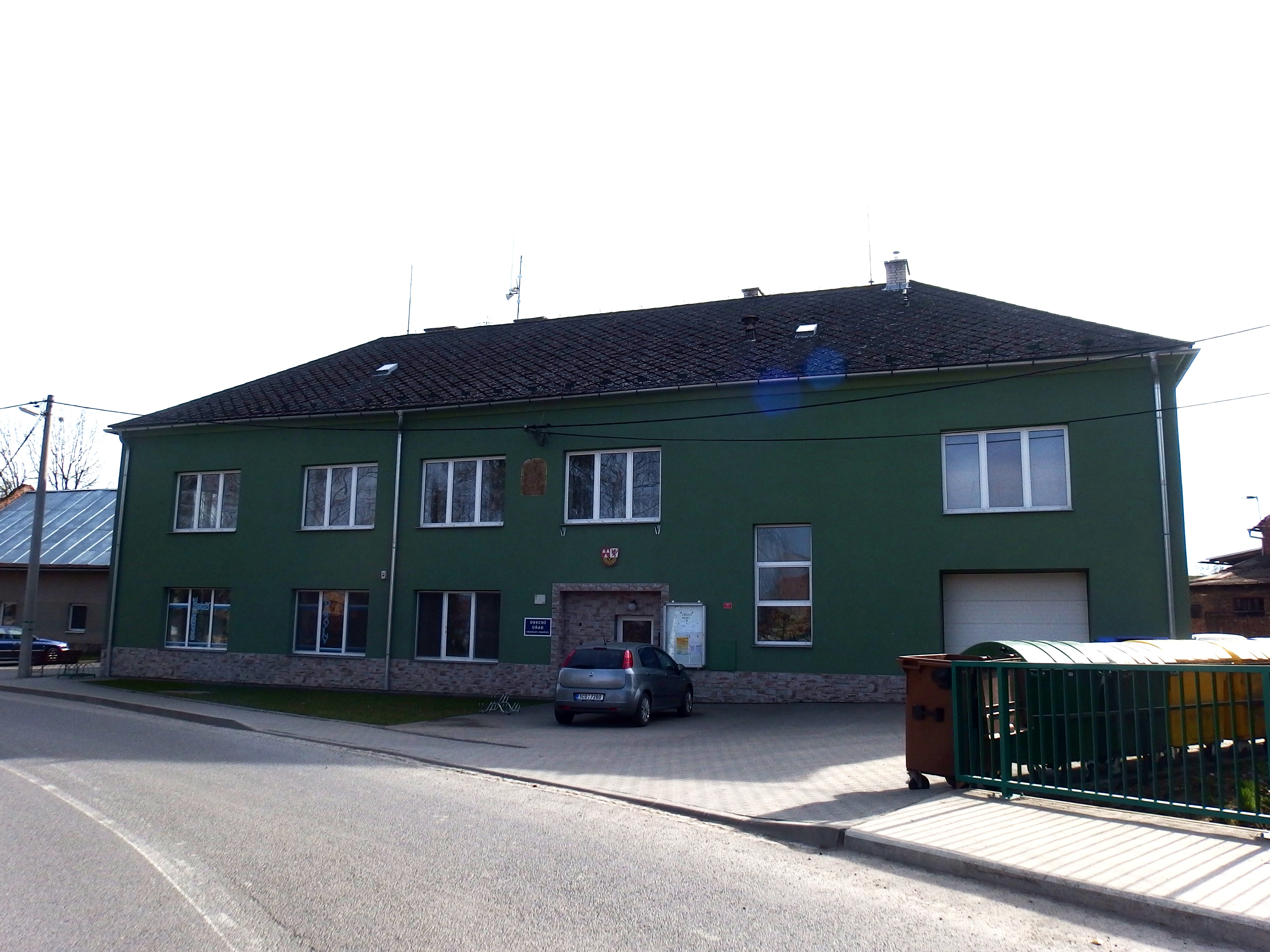 Hradčany-Kobeřice, Prostějov District, Czech Republic, part Hradčany.